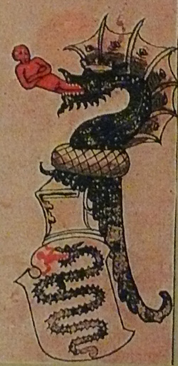 Coats of arms of the House of Visconti